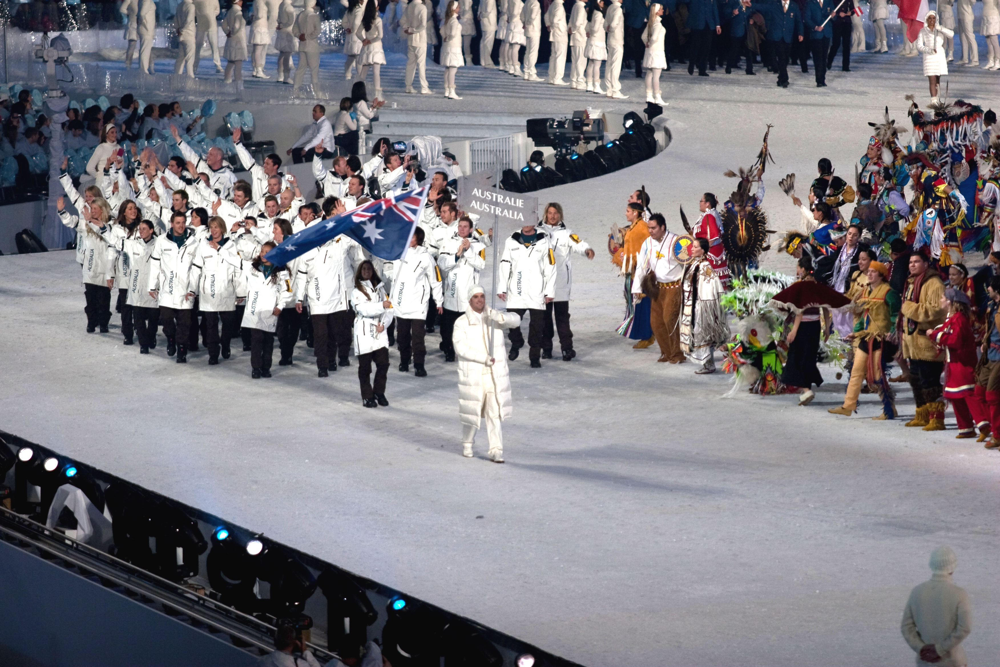 The athletes from Australia entering the stadium at the opening ceremonies of the 2010 Winter Olympics. Note the black armbands - this is memory of Nodar Kumaritashvili, who had died in a training accident on the luge course.